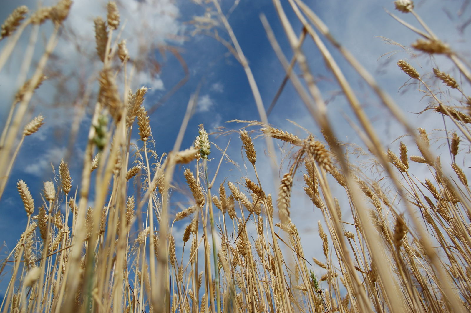 Picture of wheat from Czech republik